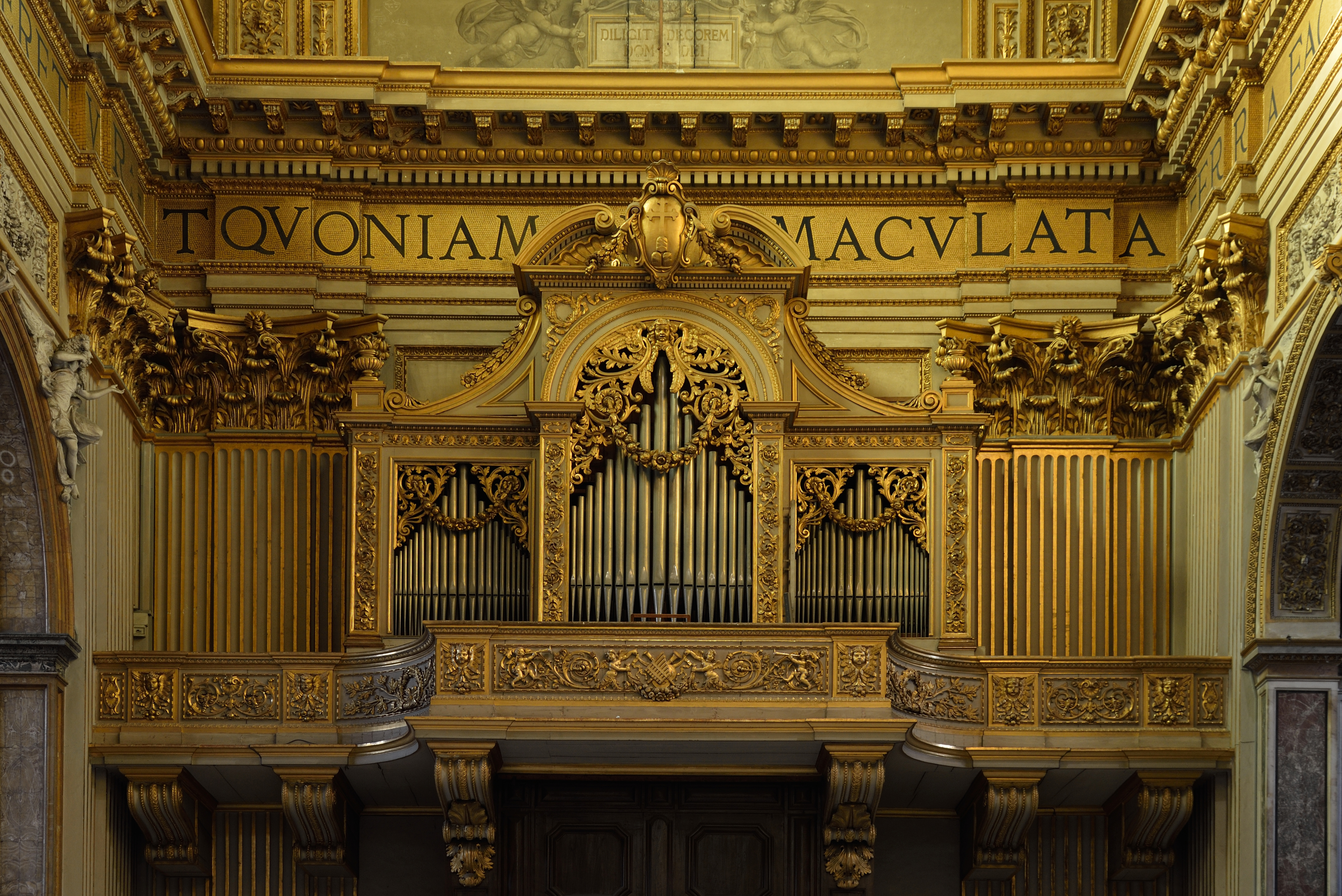 Pipe organ of Sant'Andrea della Valle (Rome)